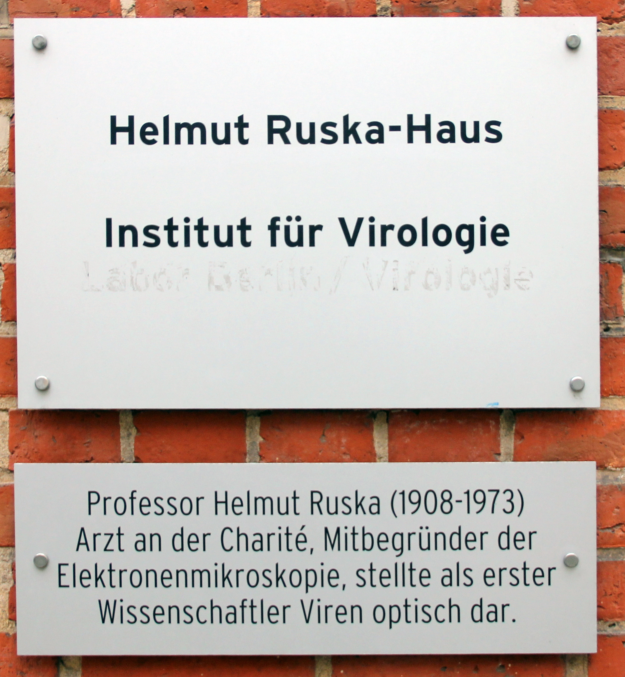 Memorial plaque, Helmut Ruska, Rahel-Hirsch-Weg, Berlin-Mitte, Deutschland